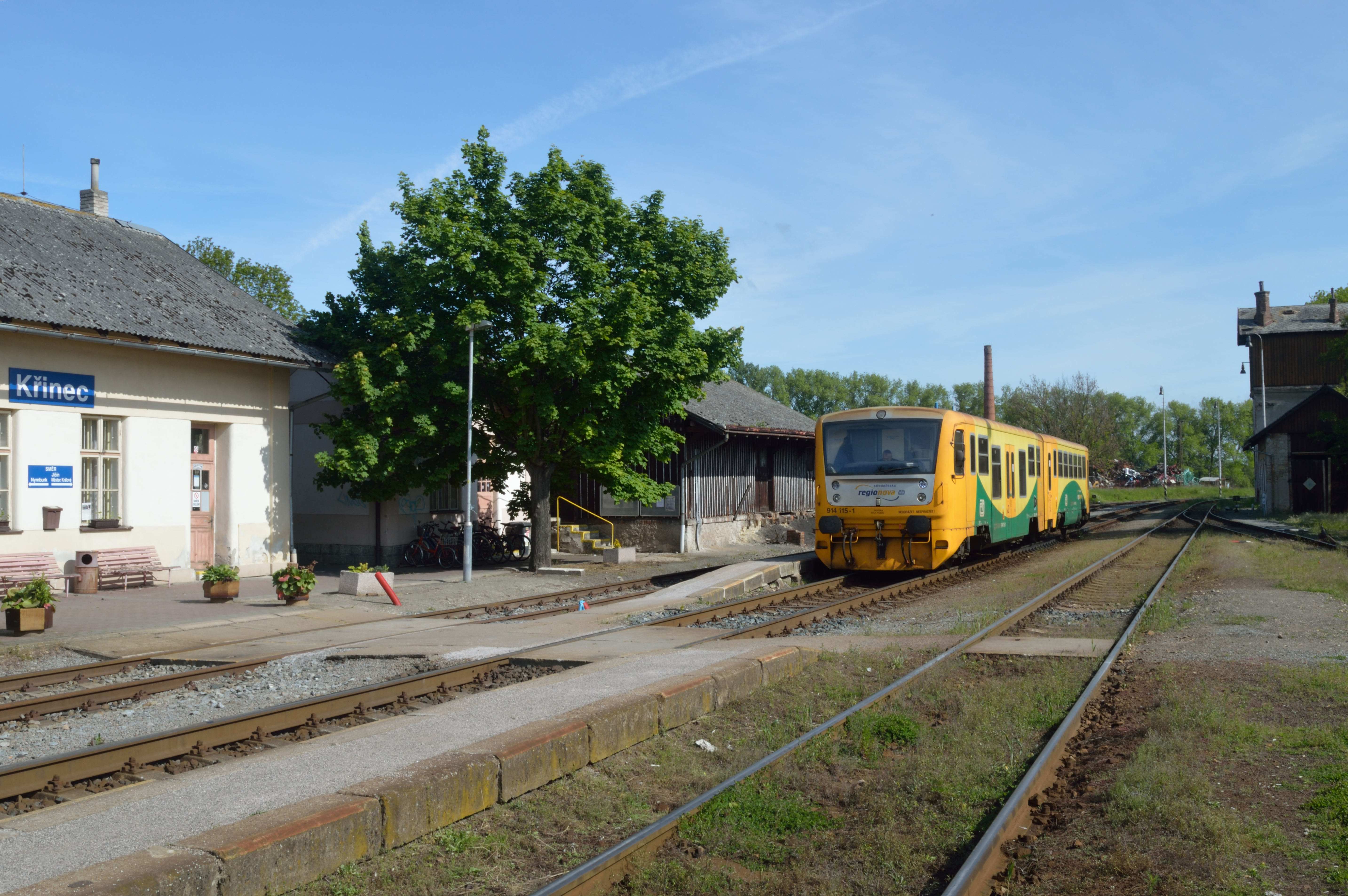 814.115 pauses at Křinec whilst working train Os15808, 08:37 Jičín to Nymburk hl.n. on 15 May 2014.